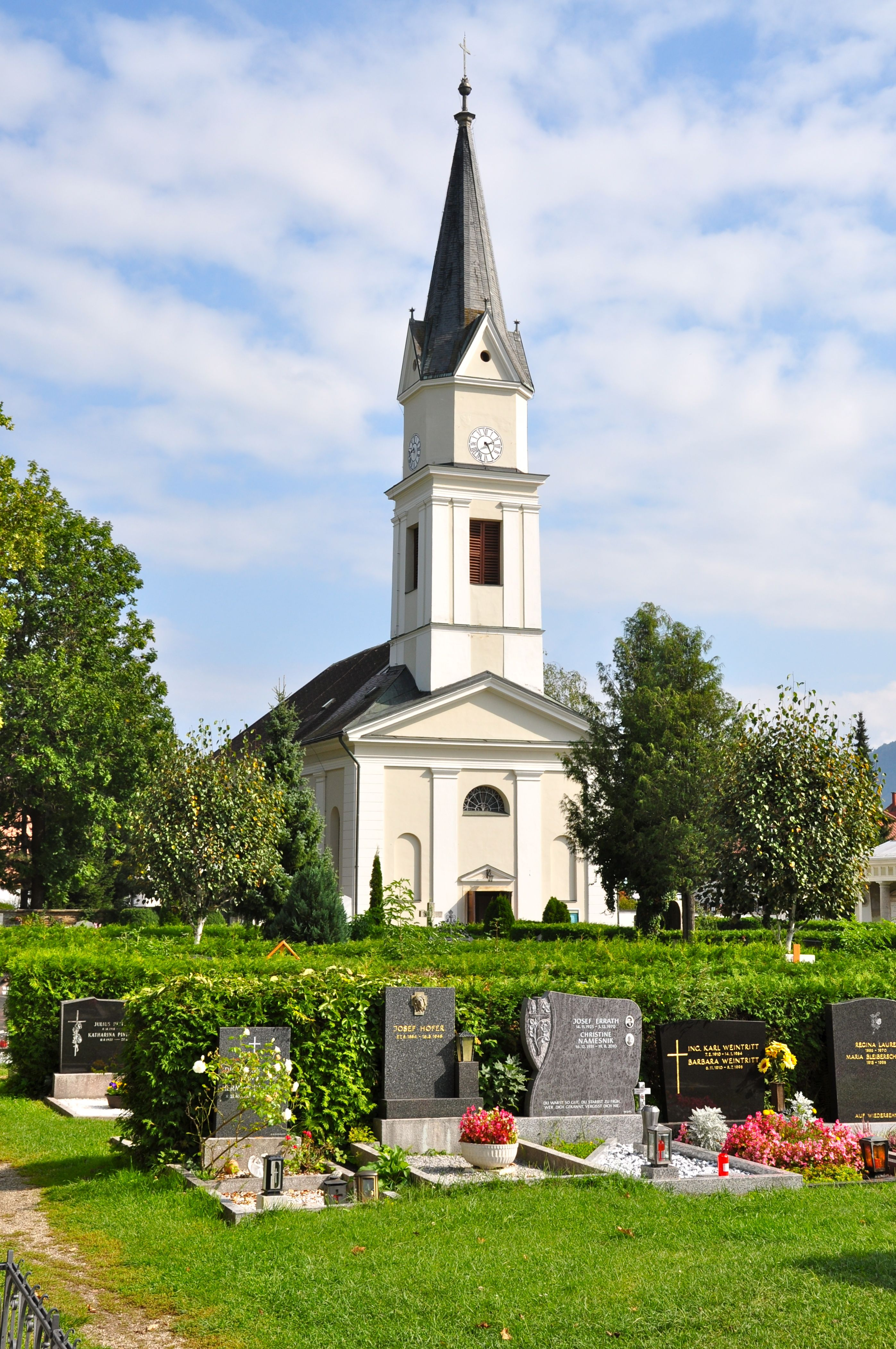 Parish church Saint Rupert on Kirchengasse #12 at the 11th district “Sankt Ruprecht”, municipality Klagenfurt on the Lake Woerth, Carinthia, Austria, EU